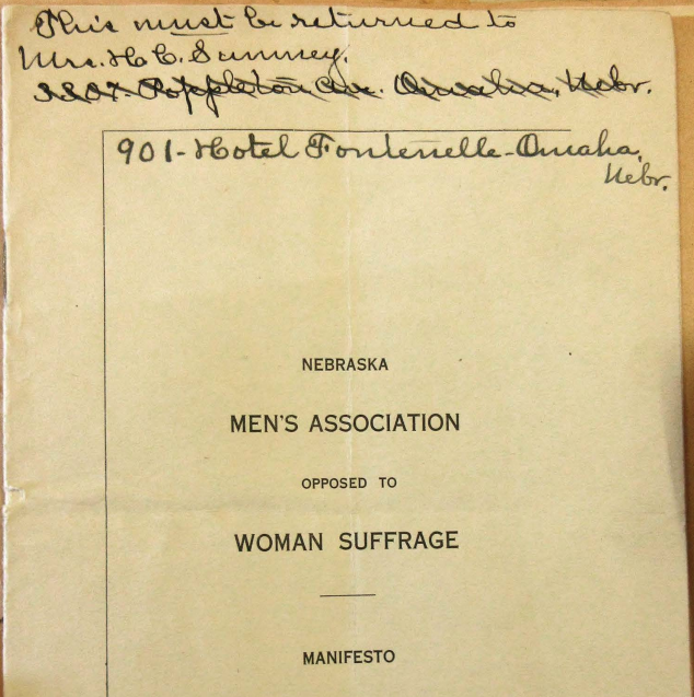 Title page of the Nebraska Men's Association Opposed to Woman Suffrage Manifesto, a pamphlet dated July of 1914, including a handwritten note by suffrage activist Katherine Sumney.